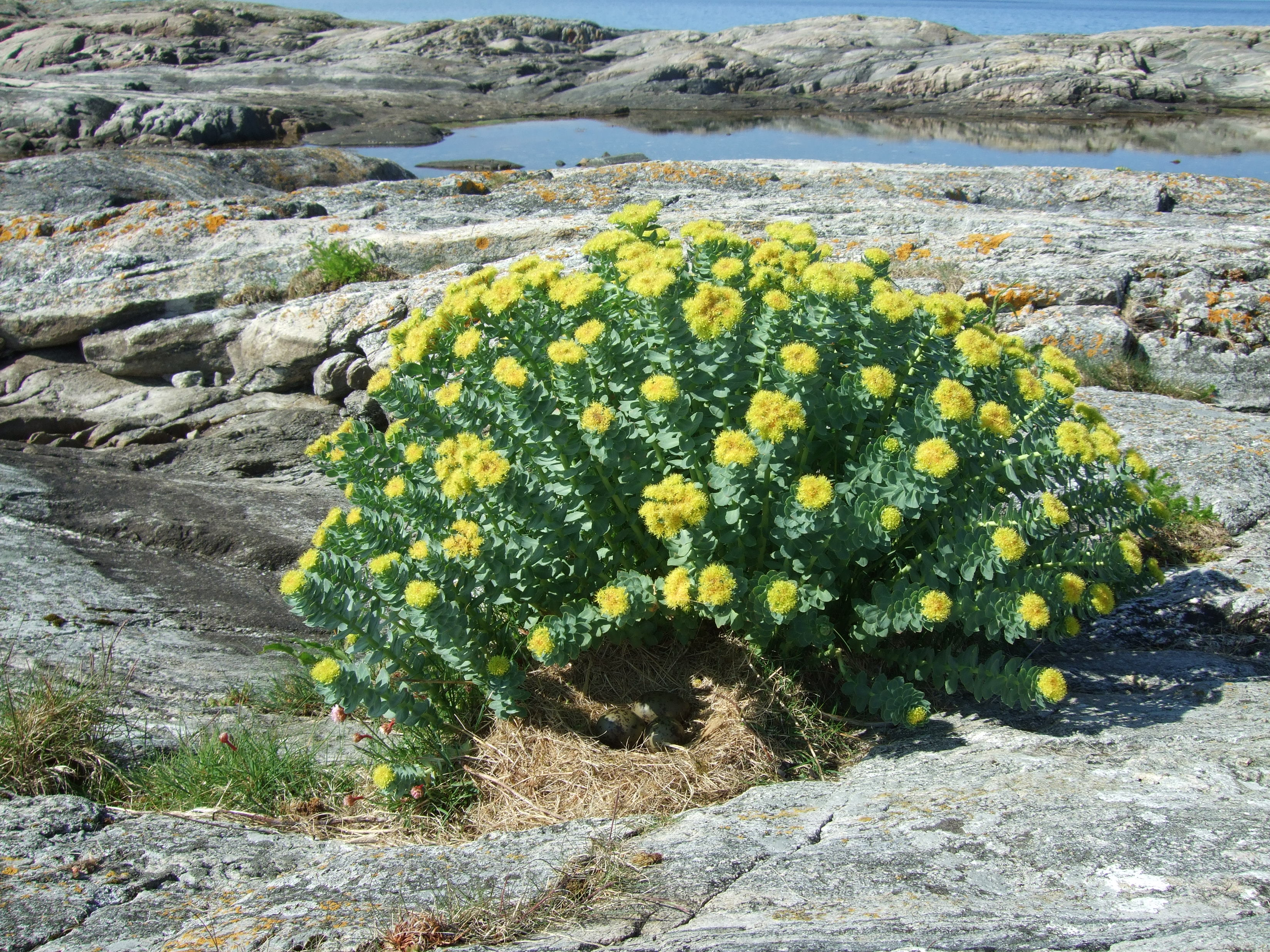 A bush of Golden Root (Rhodiola rosea) with a nest of Herring Gull eggs underneath. Picture taken on a small island in Steigen, Norway.